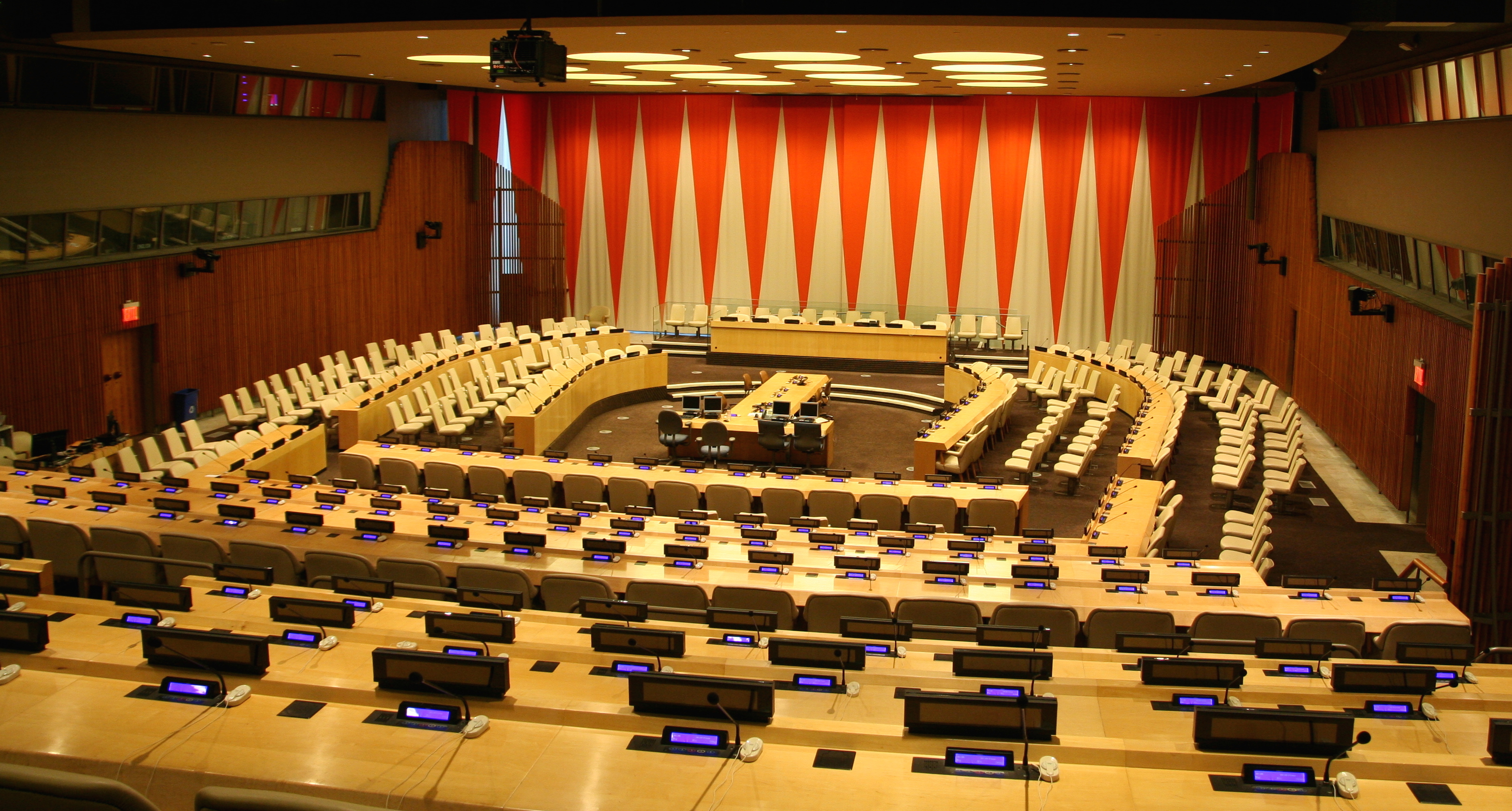 United Nations Economic and Social Council chamber in New York City.